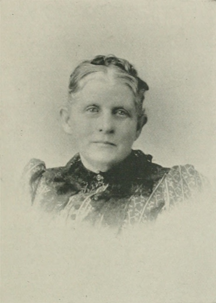 one of the Women of the Century